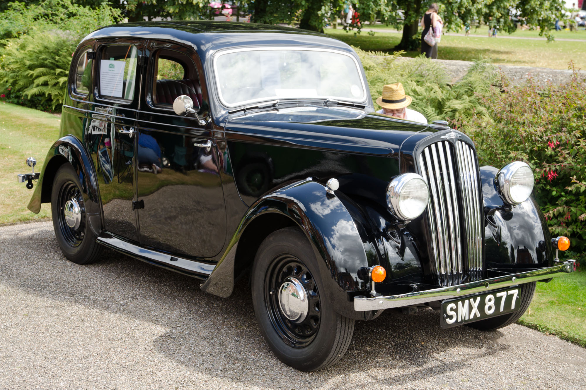 1948 Singer Super 10 (DVLA) first registered 1948, 1193cc Capesthorne Hall Classic Car Show 27/07/2014